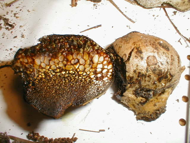 The mushroom Pisolithus arrhizus (Family Sclerodermatace)